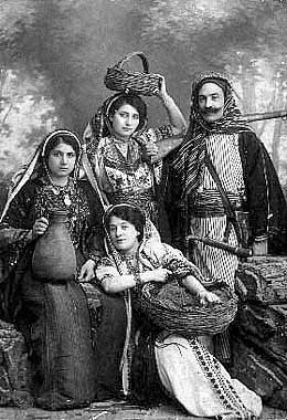 Tourists dressed up in traditional clothing. Palestine/Jerusalem.